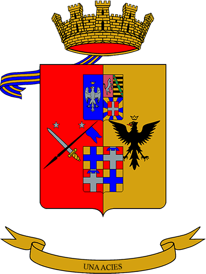 Coat of Arms of the Military Academy; Italian Army.